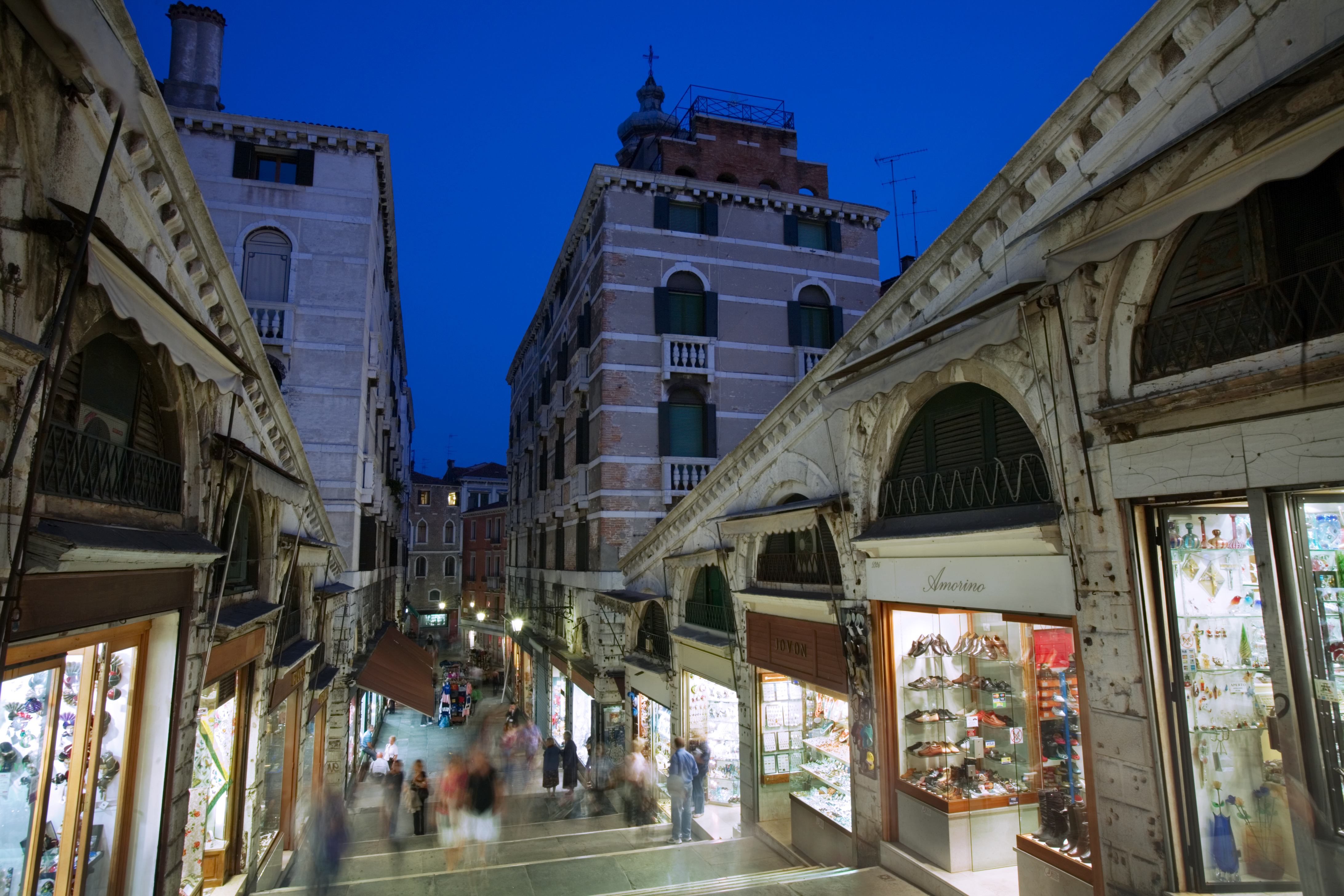 Shops in the Rialto. Venice, Italy 2009